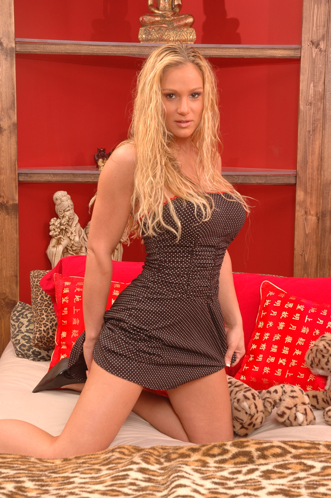 American actress Tyler Faith